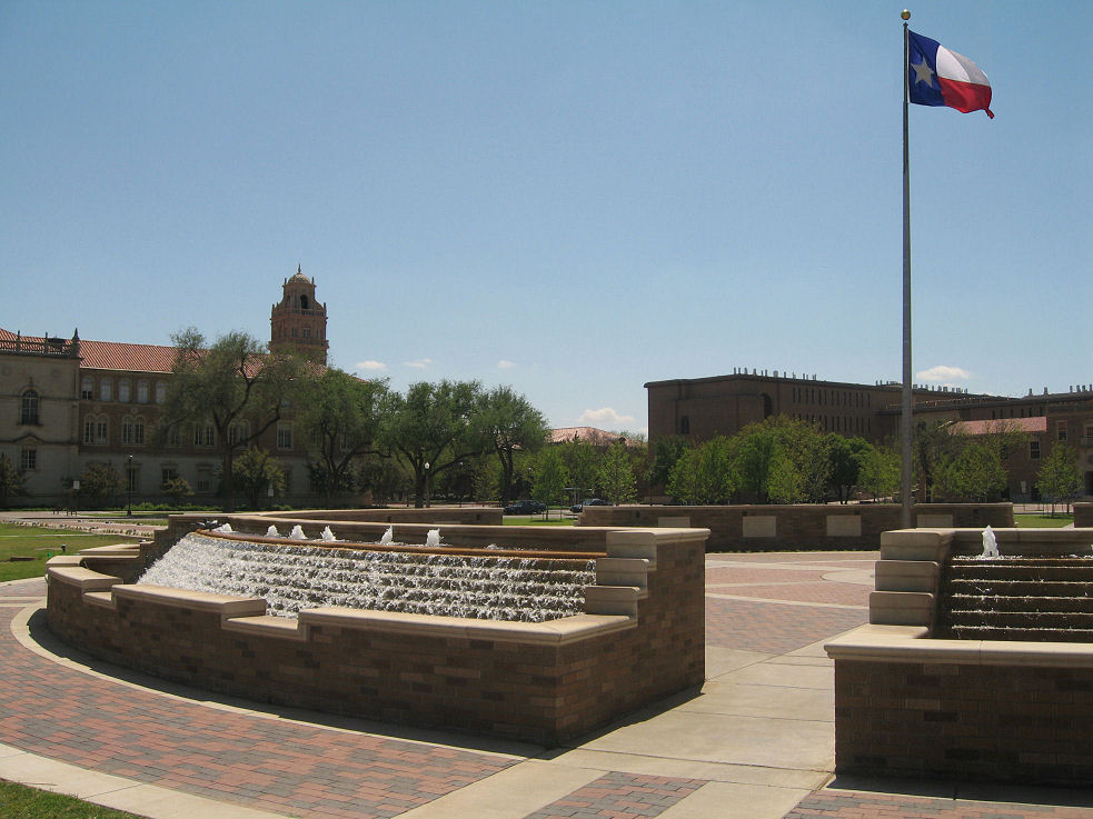 Pfluger Fountain at Texas Tech University in Lubbock, Texas, U.S.